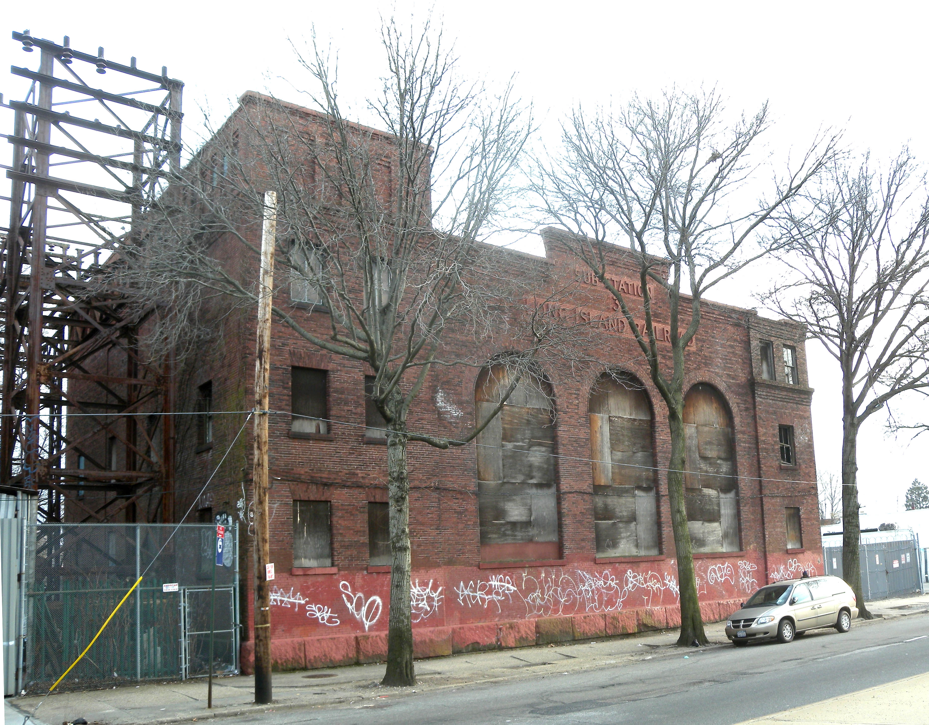 Looking south across Atlantic Avenue at Power Subtation 3 of LIRR on a cloudy afternoon, ZIP 11216.